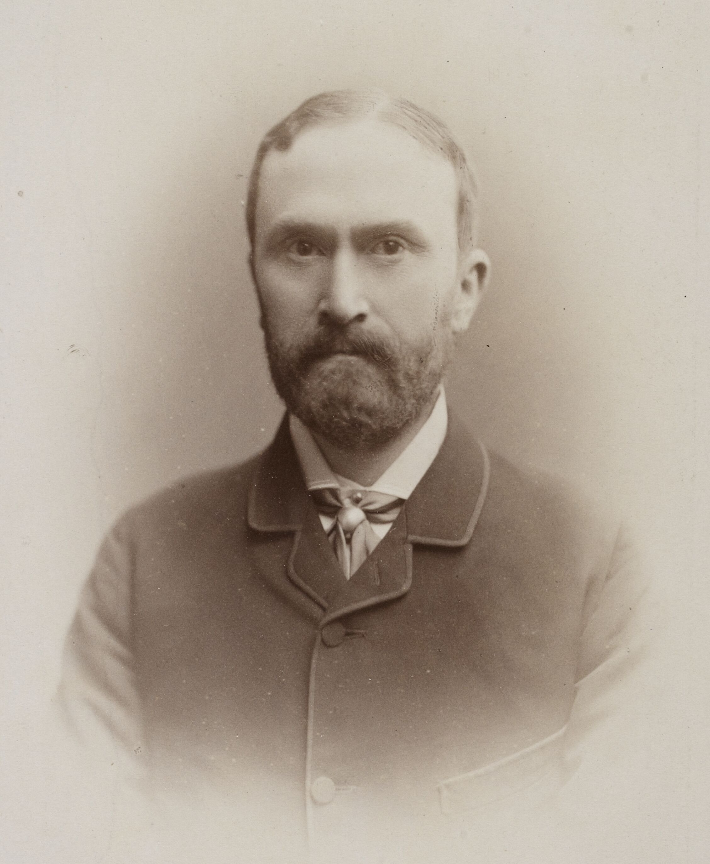 John Scott Keltie's portrait